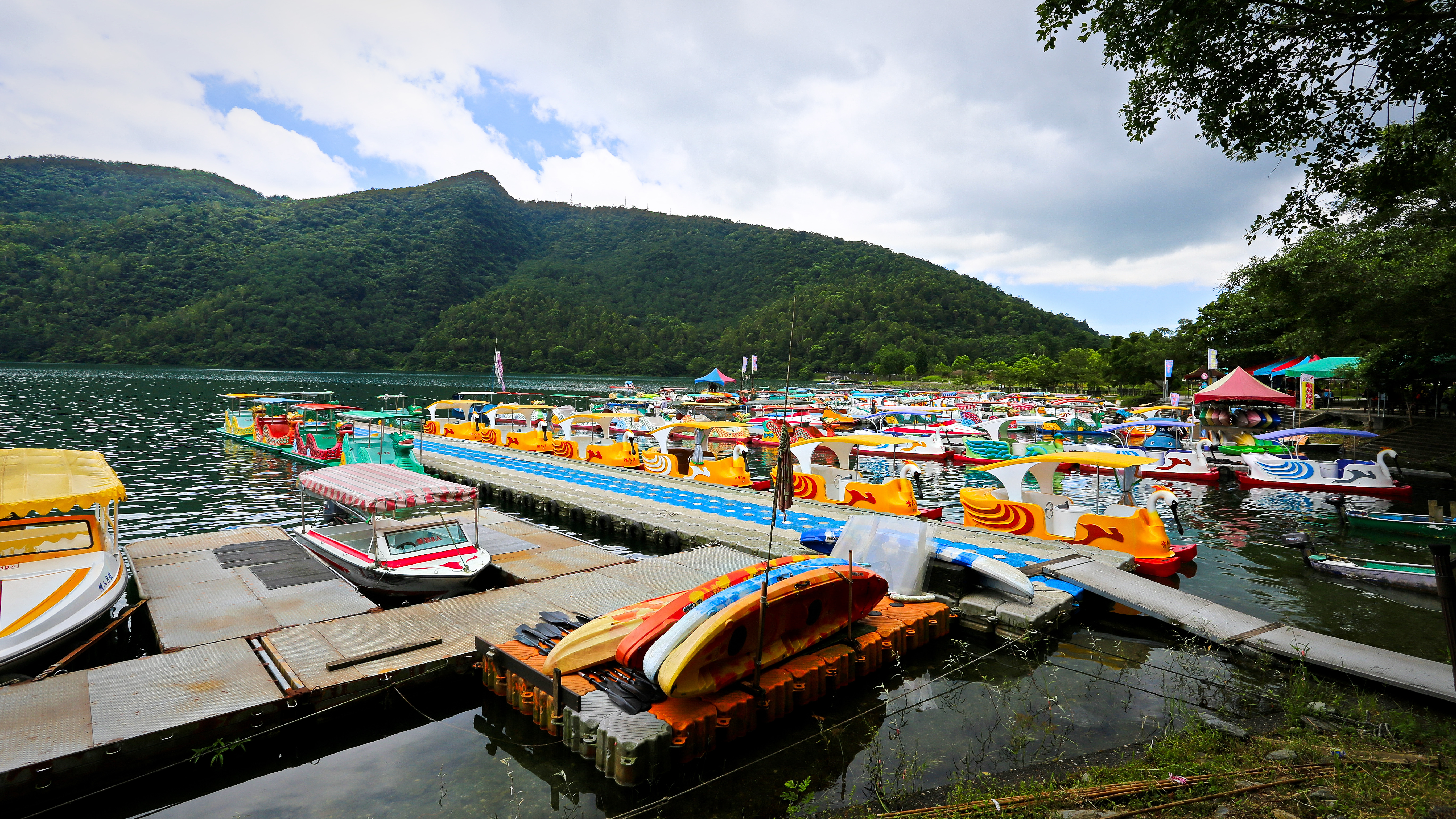 Liyu Lake, Shoufeng Township, Hualien County, Taiwan.